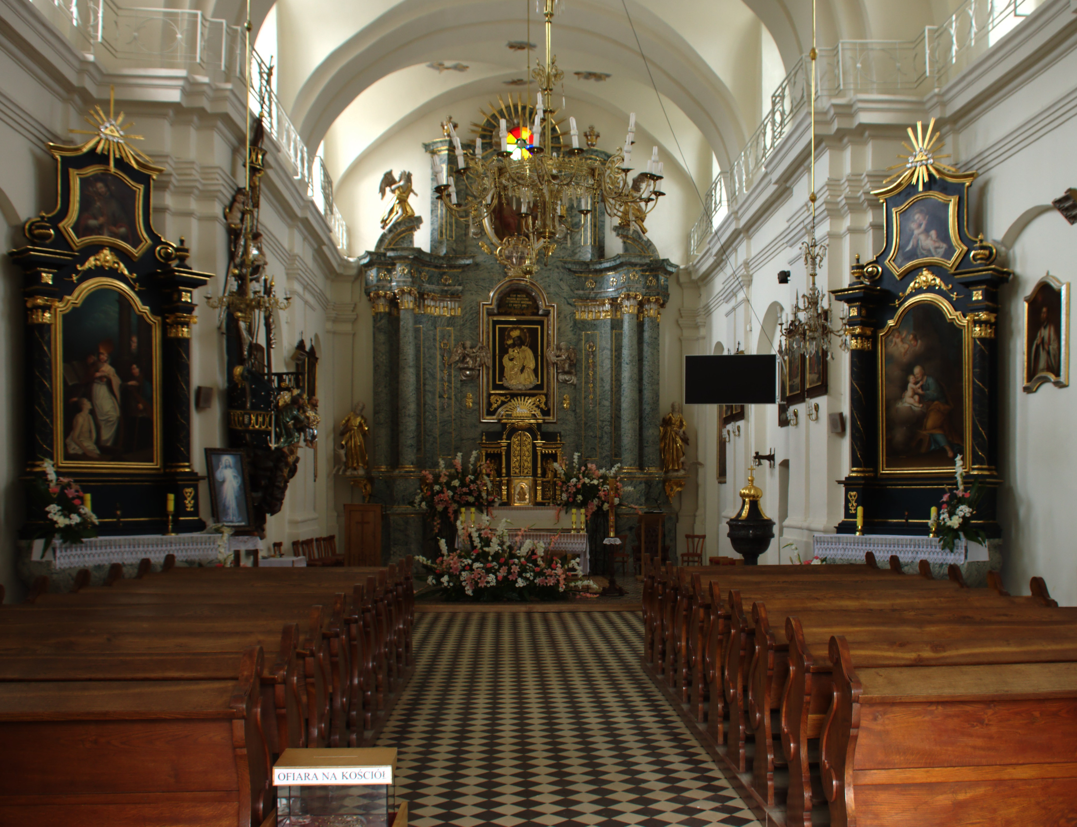 Inside of the Holy Trinity church in Babice, Podkarpackie voivodeship, Poland. The main altar, front side of the main nave and overall decoration of this baroque church This photo of Subcarpathian Voivodeship was taken during Wikiekspedycja 2011 set up by Wikimedia Polska Association.You can see all photographs in category Wikiekspedycja 2011. The making of this document was supported by Wikimedia Polska.